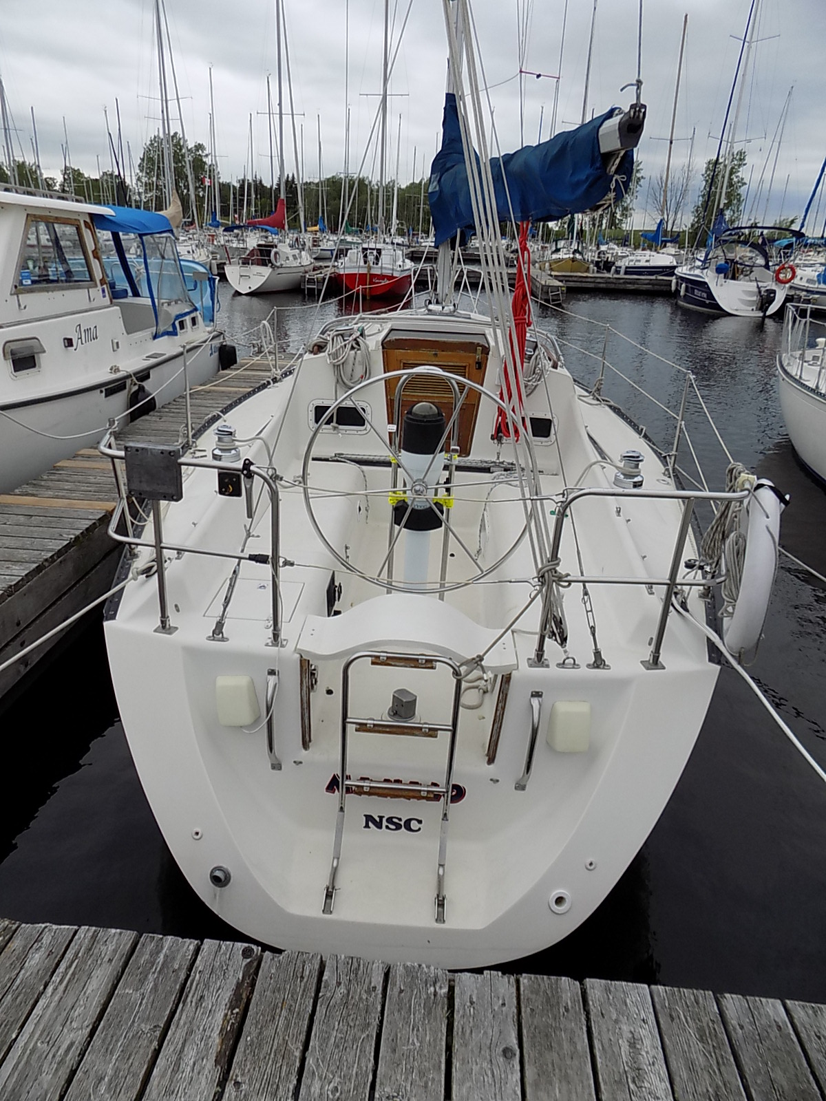 An Aloha 30 sailboat named Mahalo.